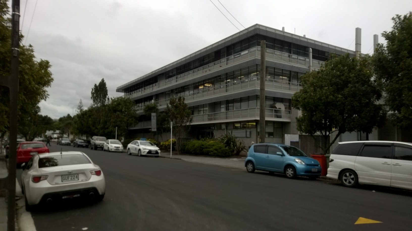 Building 529 of the University of Auckland Grafton Campus. As of September 2019, it houses the Department of Chemical & Materials Engineering, Department of Civil and Environmental Engineering, and the Linear Accelerator / Pulse Radiolysis Facility of the School of Chemical Sciences (and part of the The Australian Institute of Nuclear Science and Engineering facility).